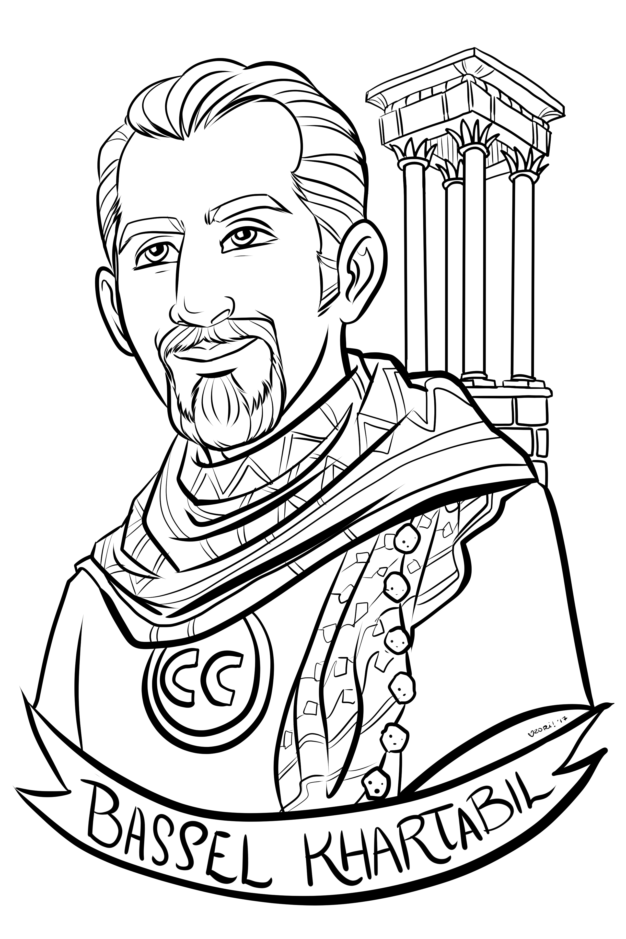 Colouring sheet of Bassel Khartabil produced as a project of UnCommon Women. Illustrator is Rori Comics